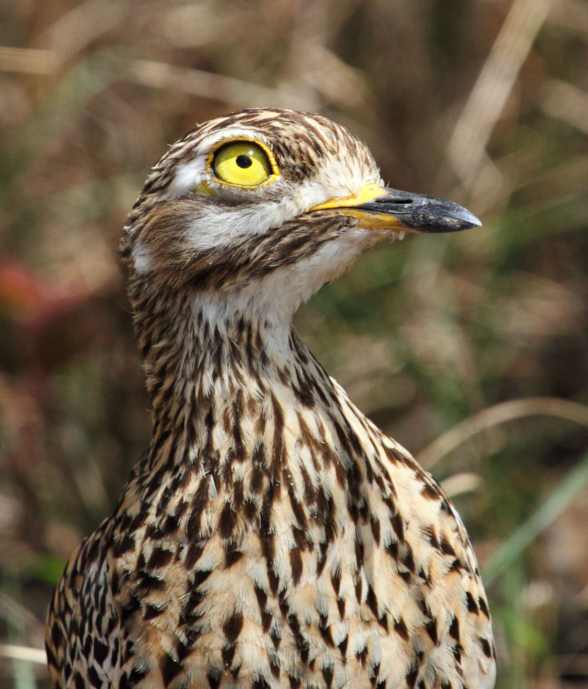 Spotted thick-knee Burhinus capensis. Mkhuze Game Reserve, KwaZulu-Natal, South Africa.